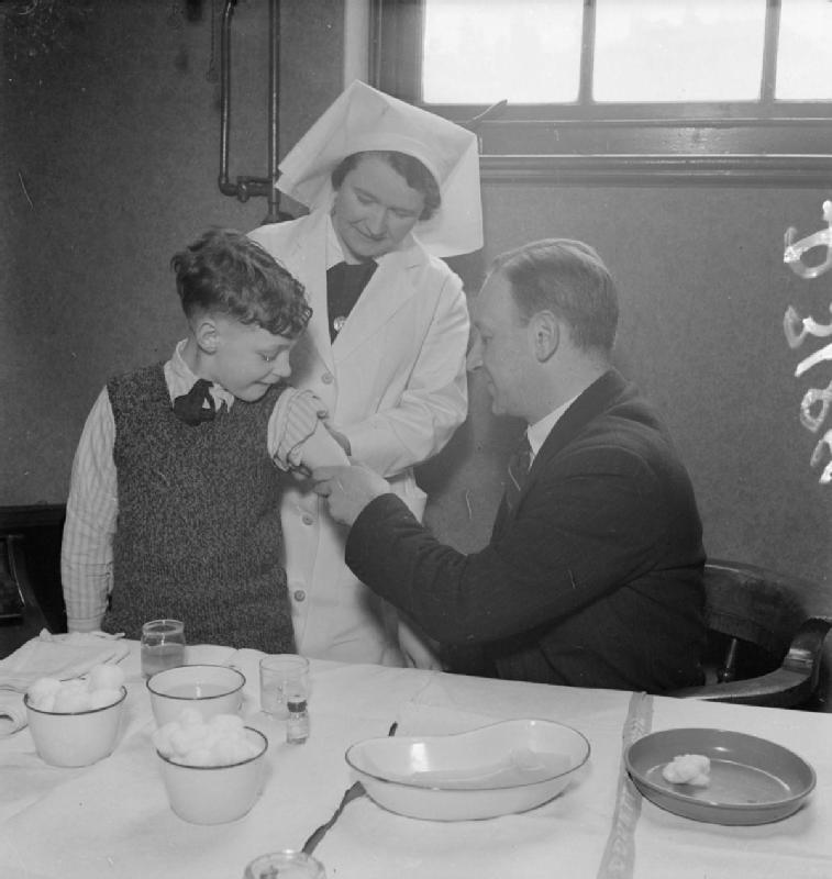 Diphtheria Immunisation Scheme, London, England, 1941 7 year old Ronald Ford receives his diphtheria inoculation at Argyle Street School Clinic on 7 May 1941. A nurse holds up Ronald's sleeve, whilst a doctor administers the injection.